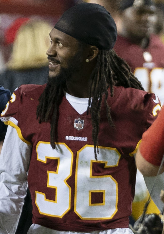 Broncos at Redskins 8/24/18